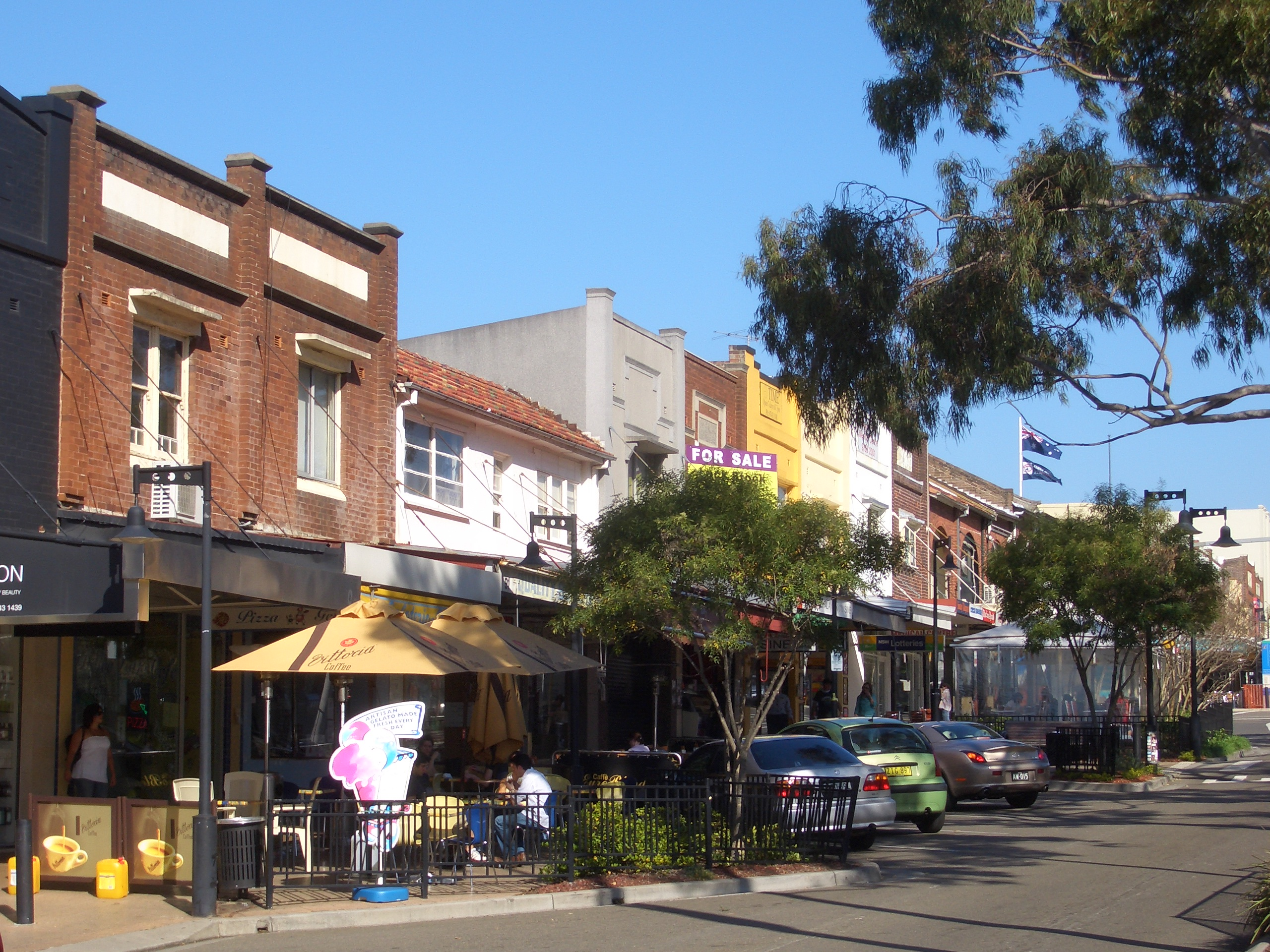 Majors Bay Road, Concord